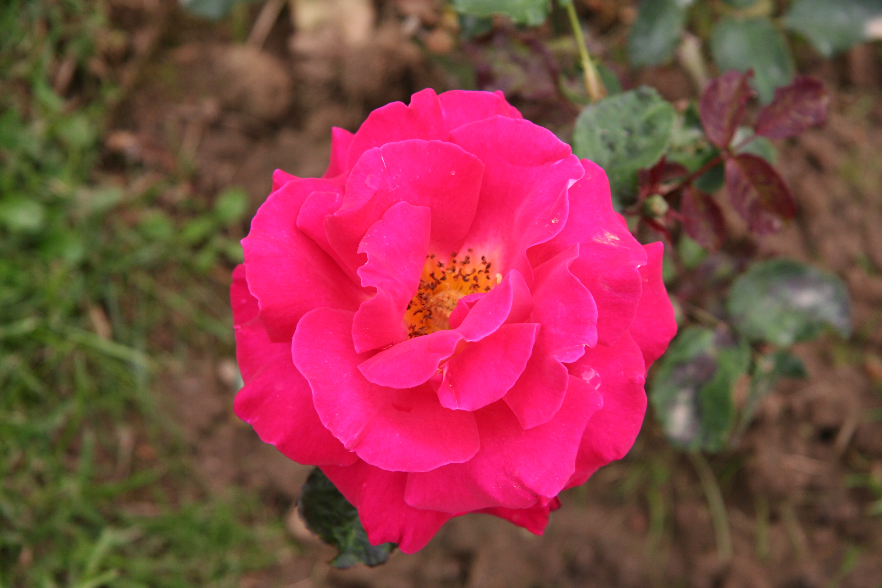 Royal Albert Hall rose - Bagatelle Rose Garden (Paris, France).